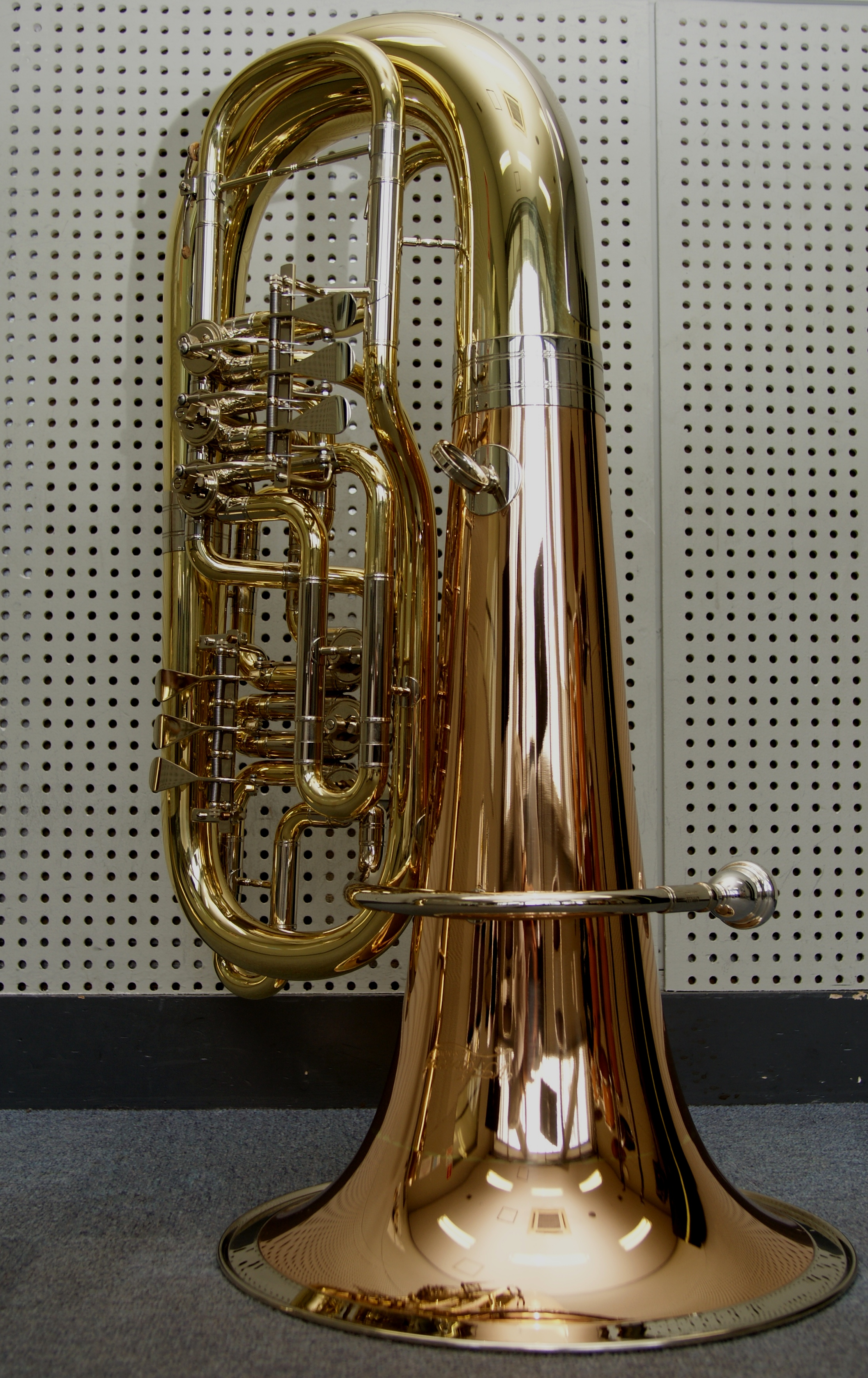 CERVENY WIENER TUBA (Musica Model) This instrument was manufactured in February 2011. Japan Shiga players ordered this. Viennese six-valve bass tuba in F With its ingenious fingering and valve system(the sixth valve turns an F tuba into a C tuba),the Viennese concert tuba is － as it were － a combination of bass and contra－bass tuba（with no discrepancy in sound!)．